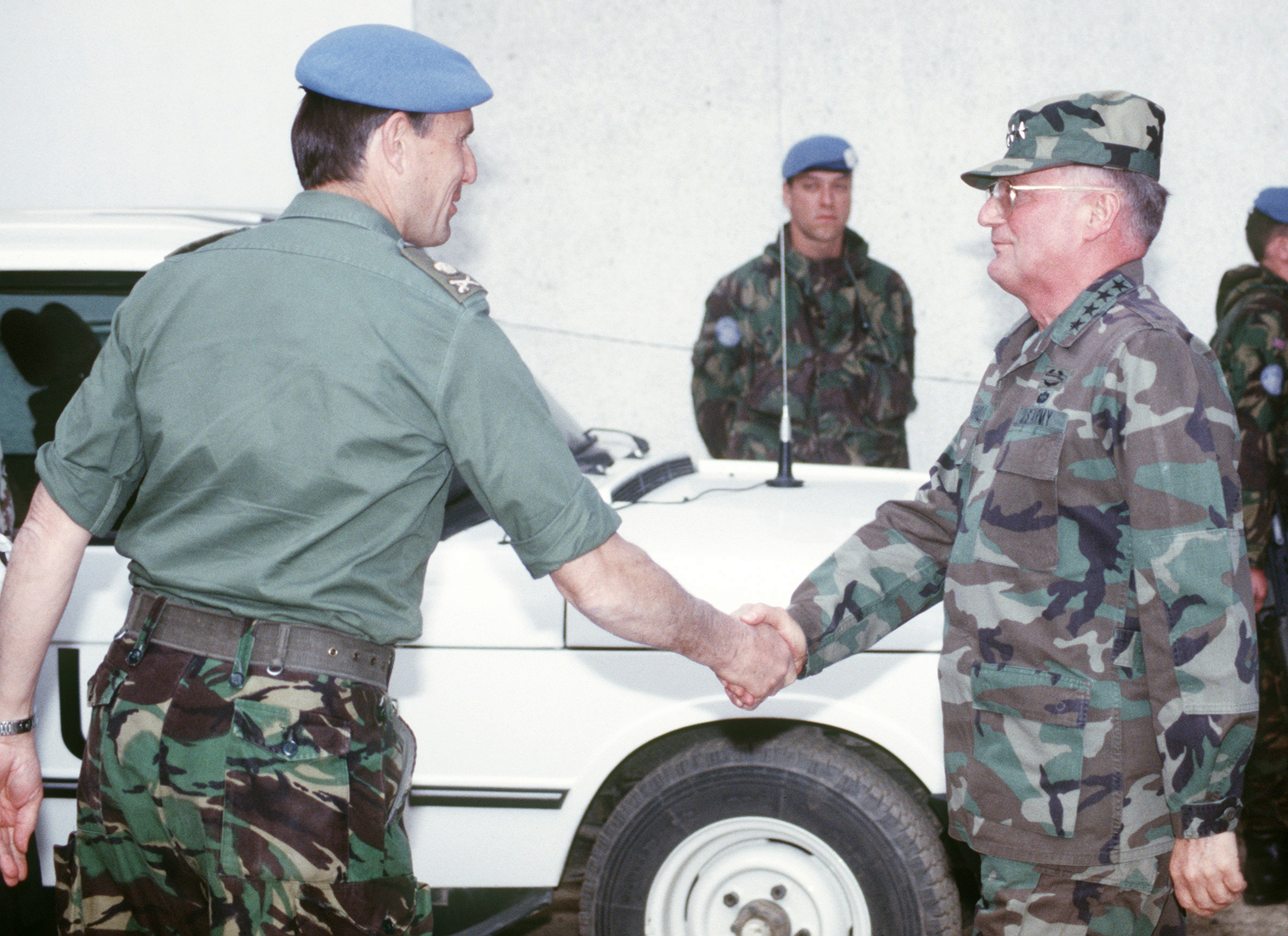 DF-ST-96-00658 General John M. Shalikashvili (right), chairman of the Joint Chiefs of Staff, greets British Lieutenant General Rose, commander of UN forces in Sarajevo, Bosnia-Herzegovina during his visit to the former Republic of Yugoslavia in support of Operation Provide Promise. Location: SARAJEVO